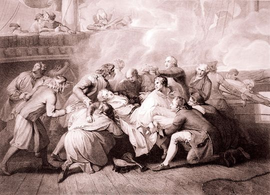 "Death of Lord Robert Manners" (1758-1782)